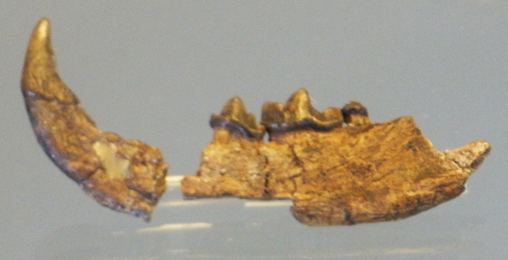 fossil potamotherium